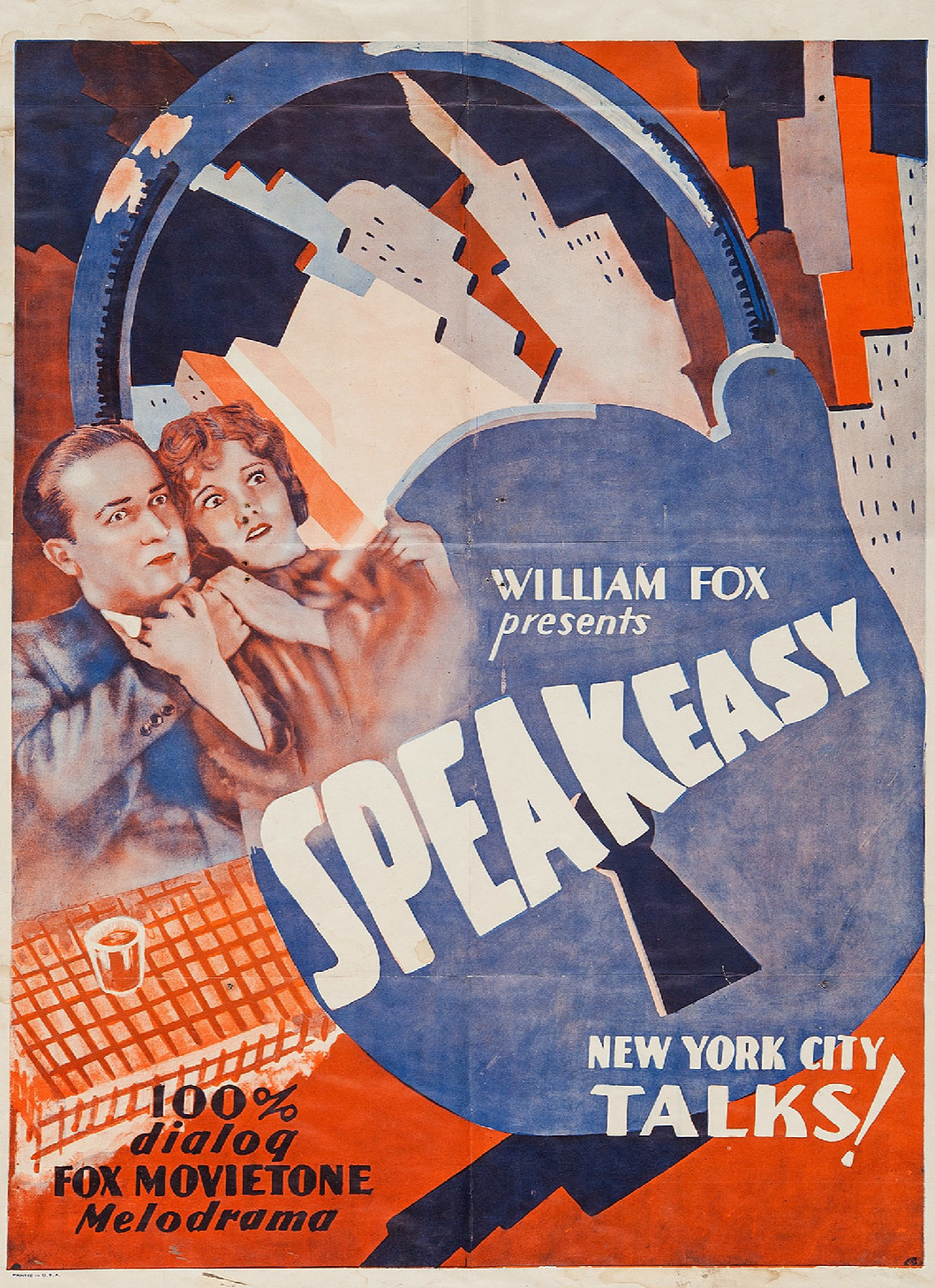 Window poster for the American drama film Speakeasy (1929).